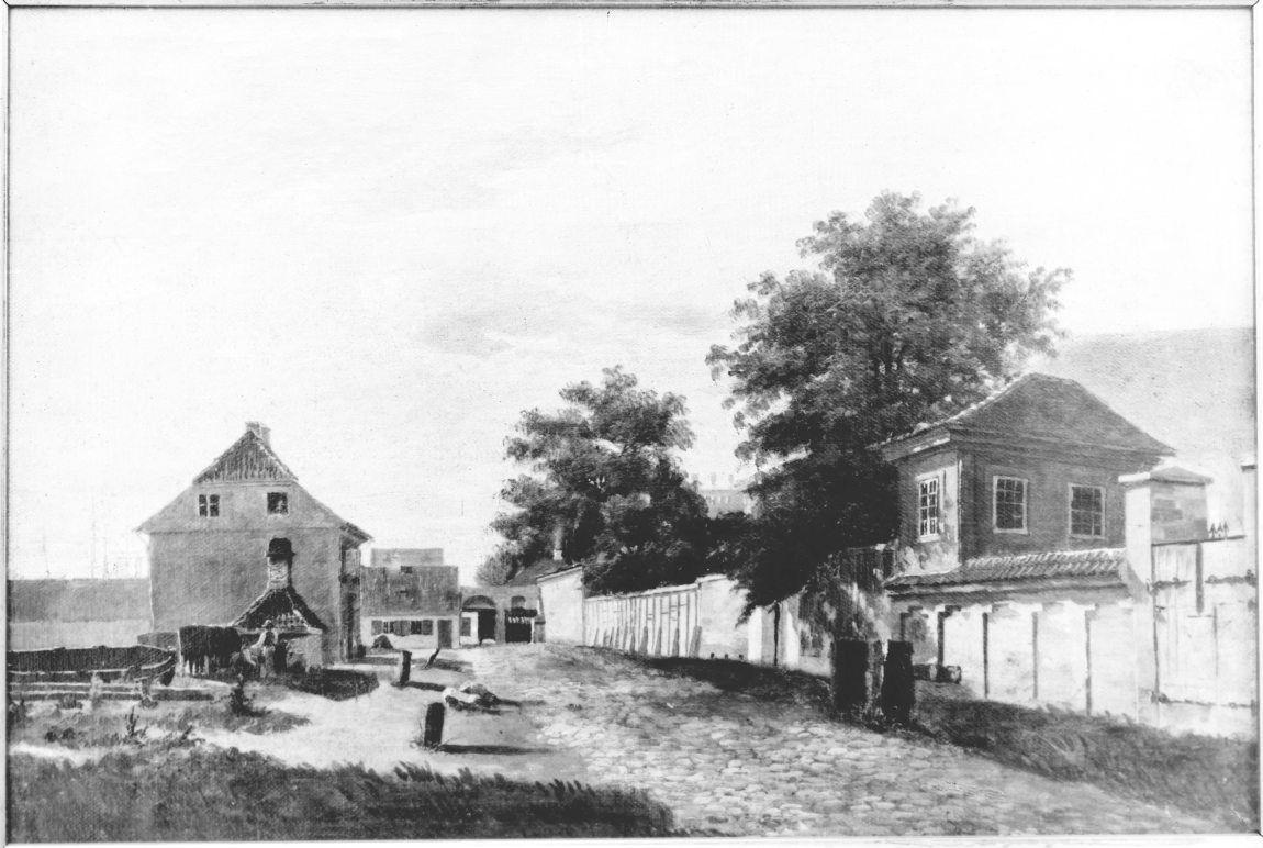 Set mod Skt. Annæ Plads. Til højre havemurene til Amalienborgs palæer. Fotografisk reproduktion af C.F. Sørensens maleri fra ca. 1845.